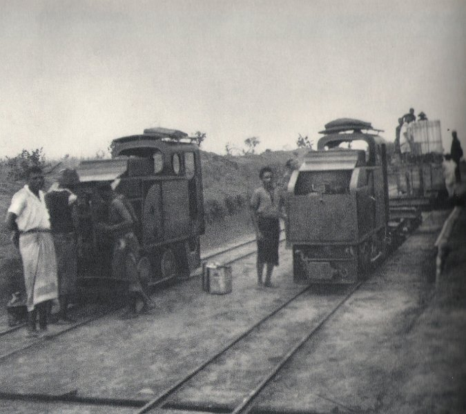 A railway was built between Charlesville and Makumbi, the first train towed by internal combustion engine locomotive connected these two points in October 1926